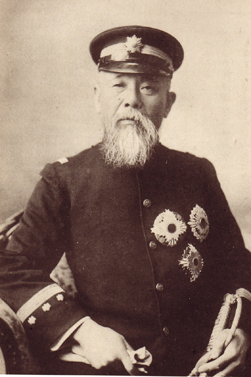 Portrait of Ito Hirobumi (伊藤博文, 1841 – 1909)